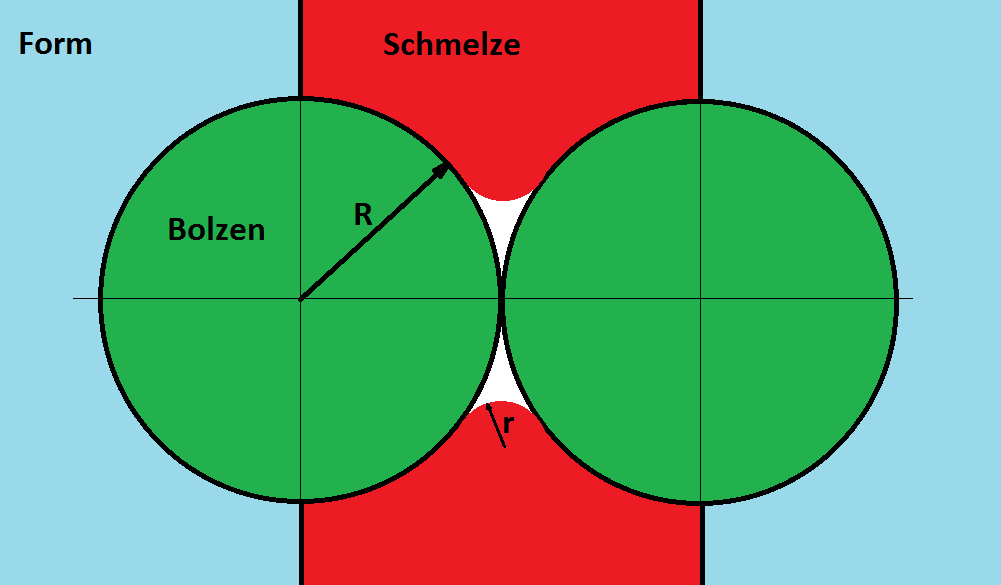 Test for fillability / mould filling capacity